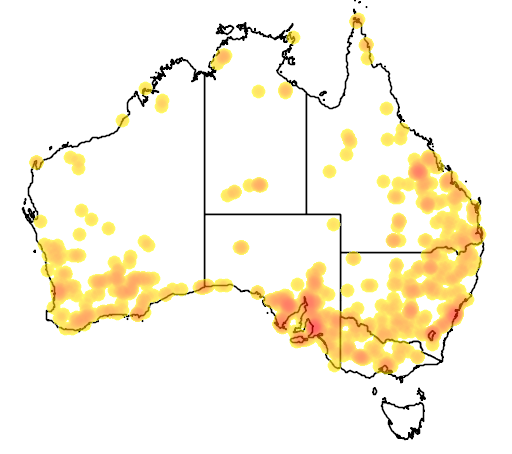 A map of the records of meat ant specimens reported to the Atlas of Living Australia